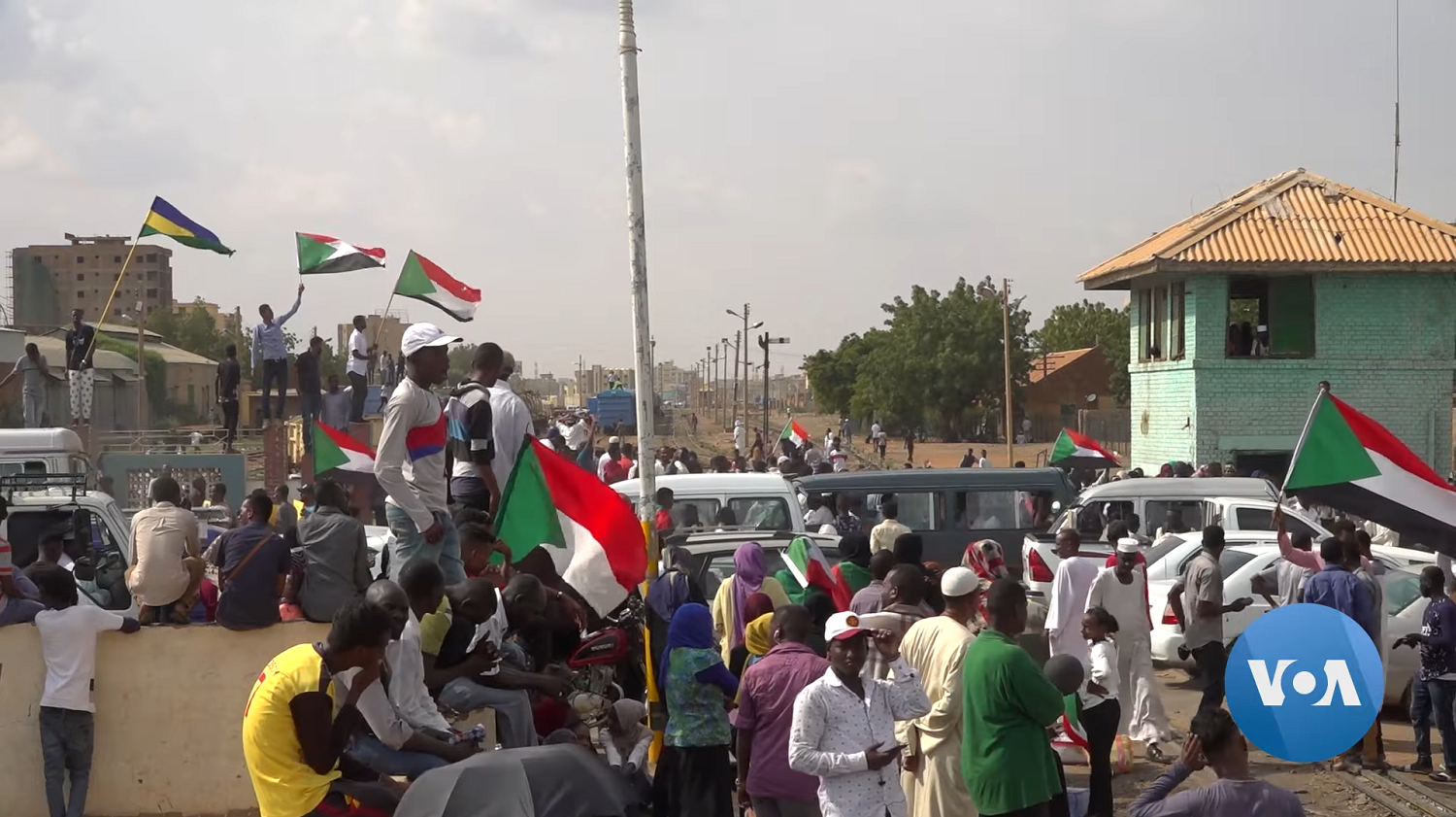 Sudanese protestors gather in front of government buildings in Khartoum to celebrate the final signing of the Draft Constitutional Declaration between military and civil representatives.